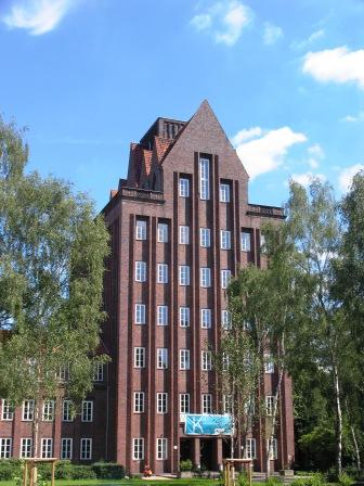 Front view of House of Sciences in Braunschweig, Germany